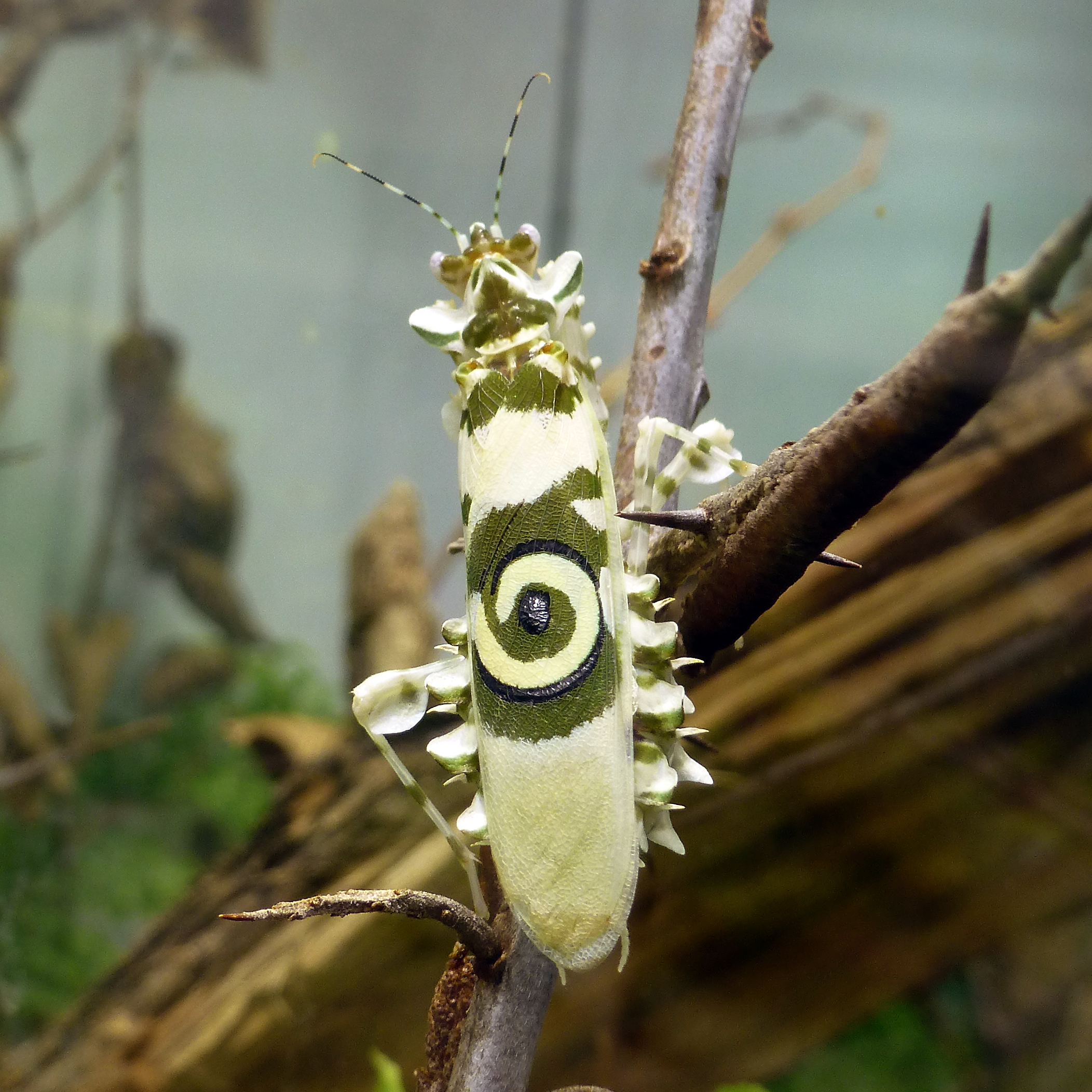 Pseudocreobotra wahlbergii